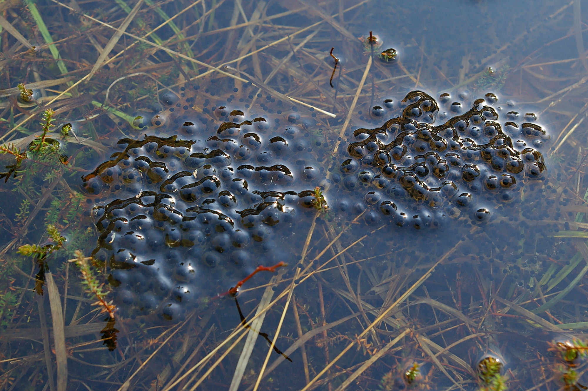 Fresh spawn clumps of the Moor Frog (Rana arvalis), submerged in a shallow pool.